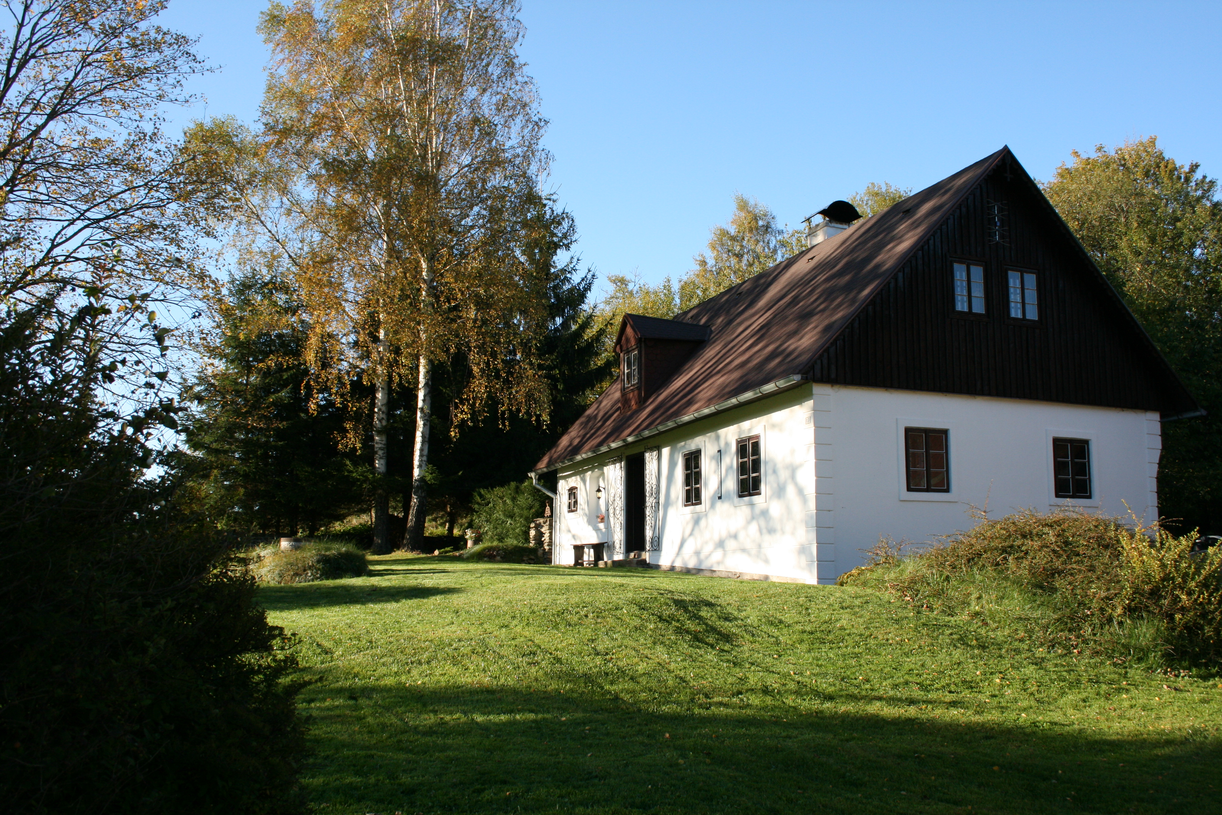 Osaměle stojící stavení na Lídlových Dvorech